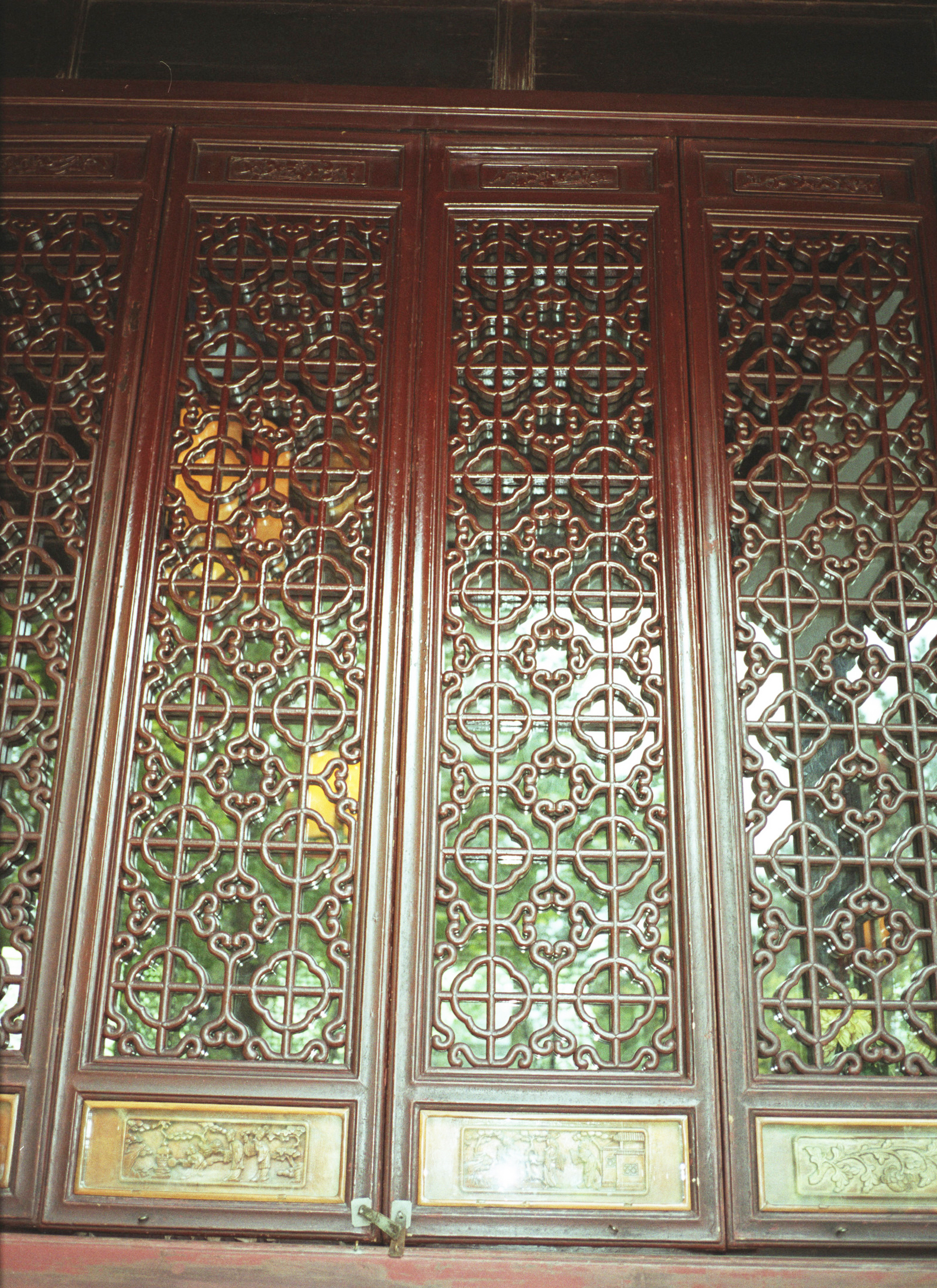 Doors with grilles — in Suzhou, China.